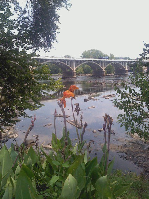 Across the Congaree River